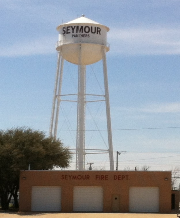 water tower with fire department, better than previous